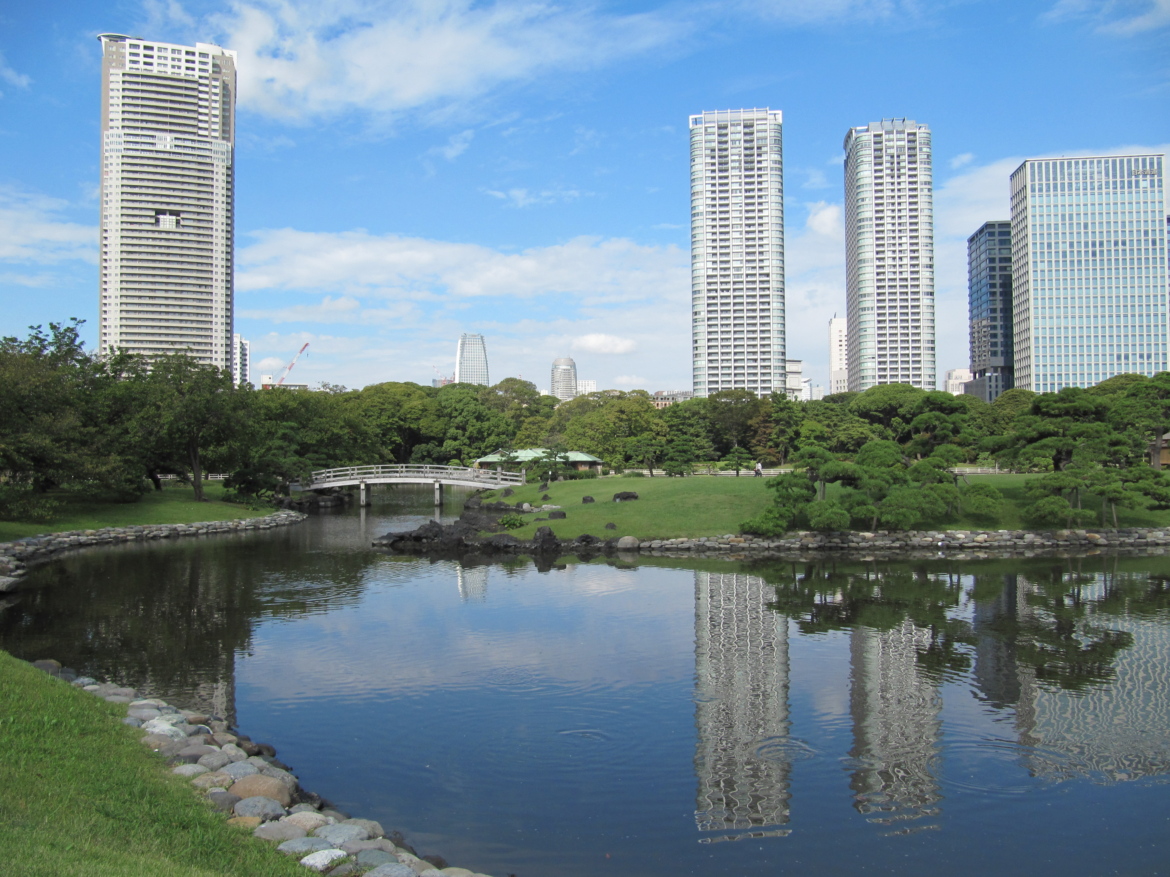 Naka-no-hashi bridge and Nakajima-no-ochaya teahouse seen from distance at Hama-Rikyu garden, Tokyo, Japan.